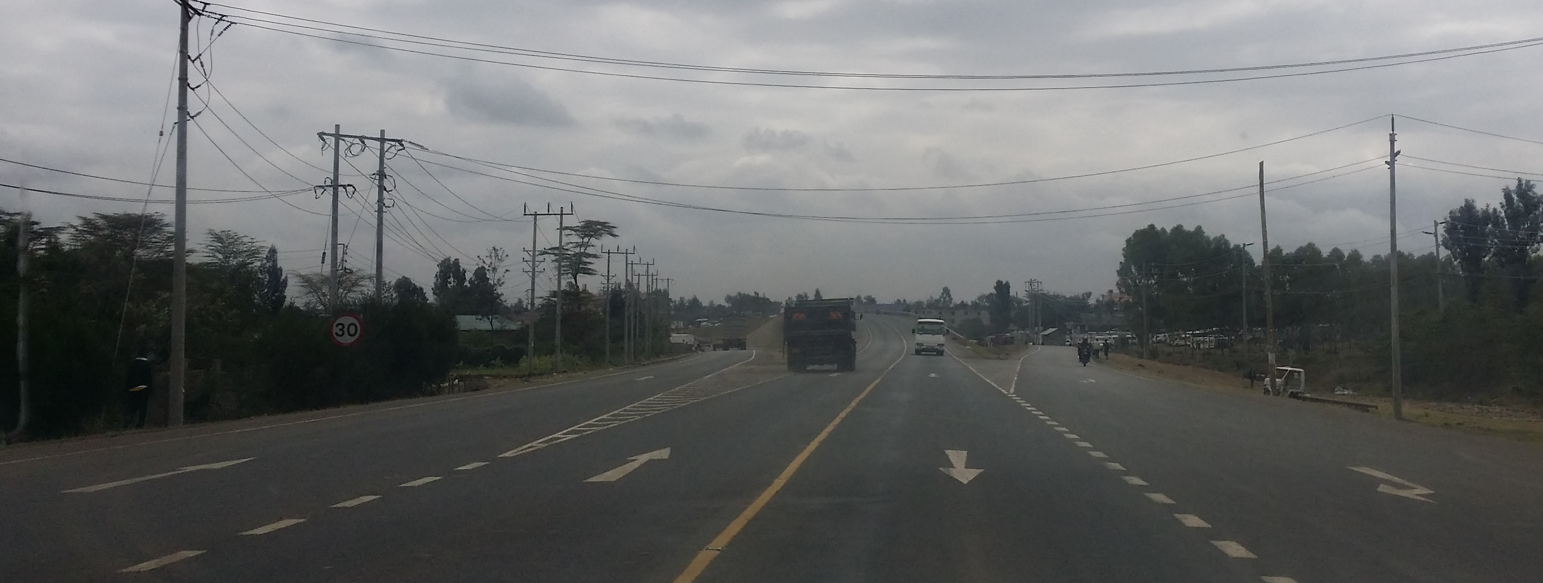 Eastern Bypass, Nairobi